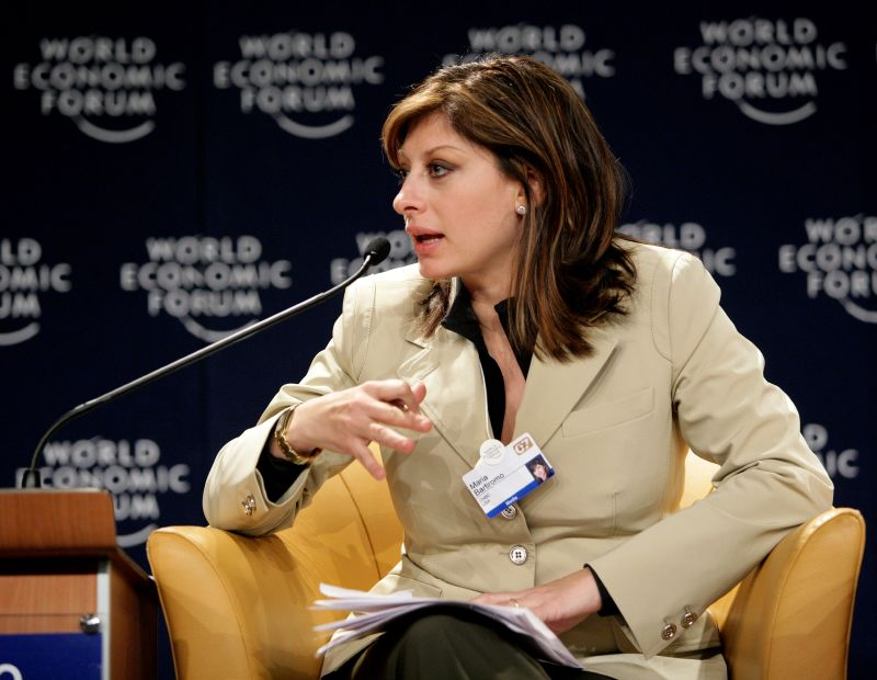 DAVOS/SWITZERLAND, 25JAN07 - Maria Bartiromo, Anchor, CNBC's Closing Bell, and Host and Managing Editor, Wall Street Journal Report, CNBC, USA; Young Global Leader captured during the session 'What's on the Mind of Asia's New Business Giants?' at the Annual Meeting 2007 of the World Economic Forum in Davos, Switzerland, January 25, 2007.